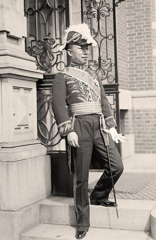 Shah, Kai Fu. E.E. and M.P. From China. Cred. Presented April 14, 1914.